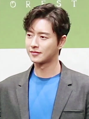 Park Hae-jin in January 2020